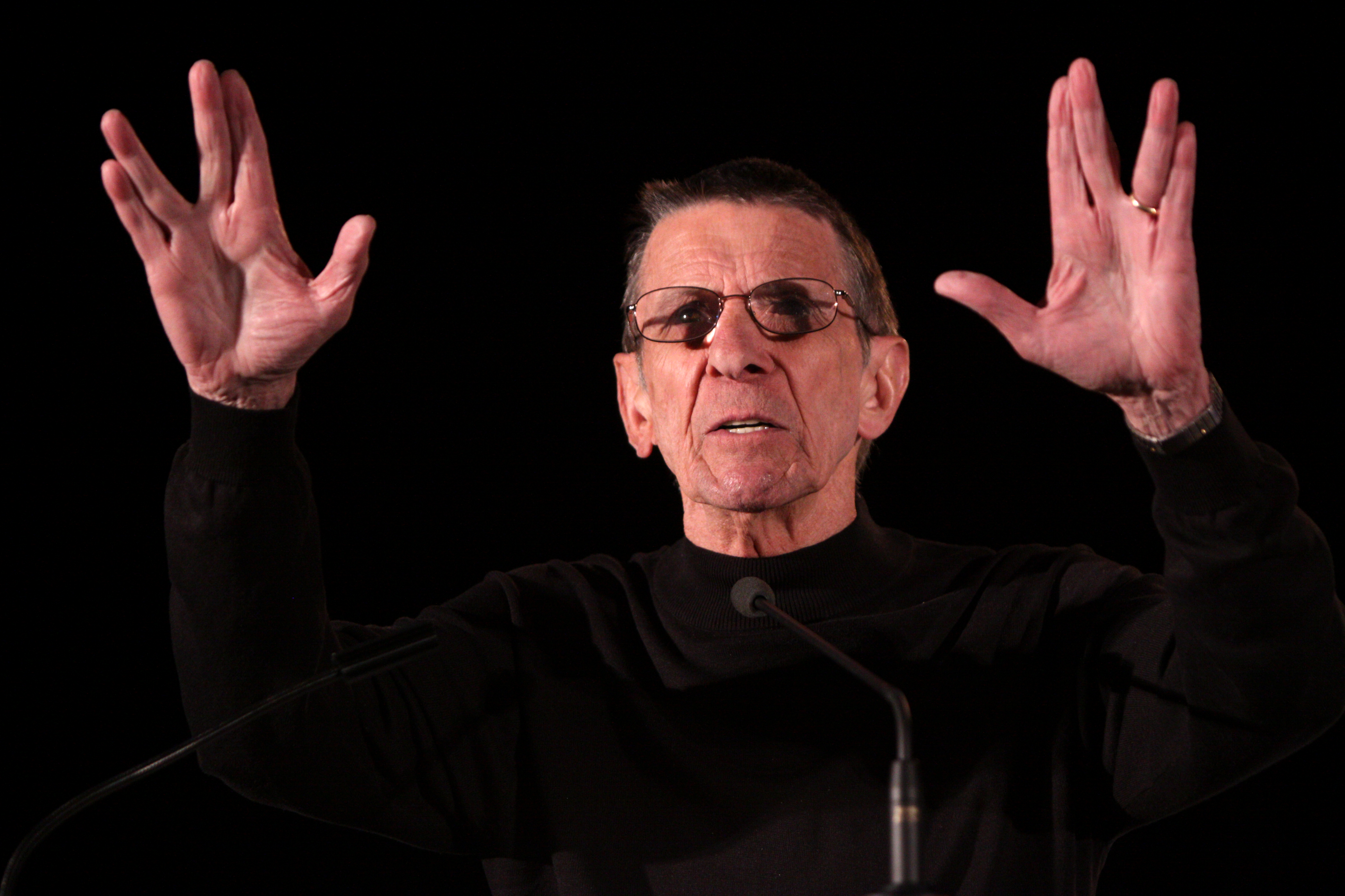 Leonard Nimoy at the Phoenix Comicon in Phoenix, Arizona.